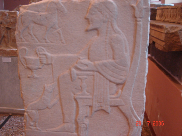 Relief, Archaeological Museum Sparta